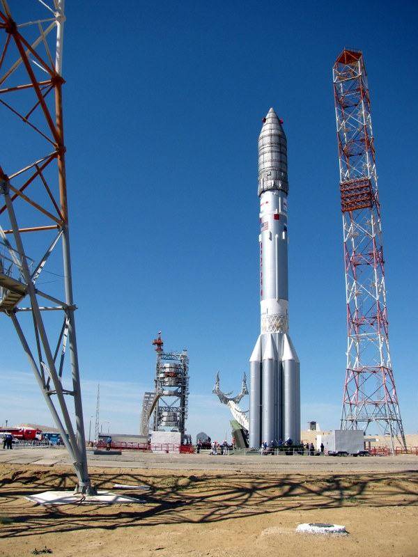 Proton-M rocket prepared for launch. Launch campaign BADR-5 (Arabsat-5B).